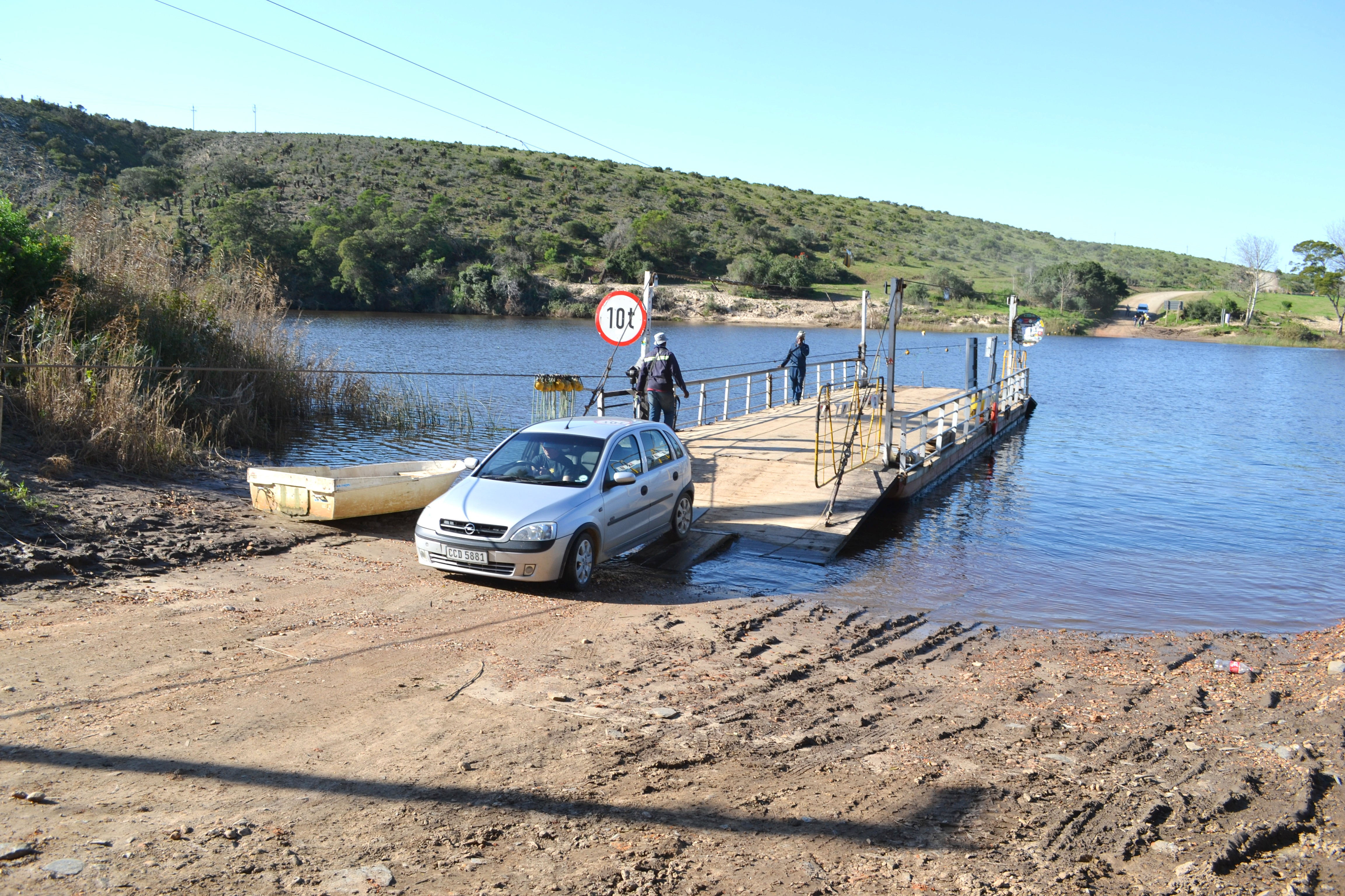 Malgas, Western Cape.